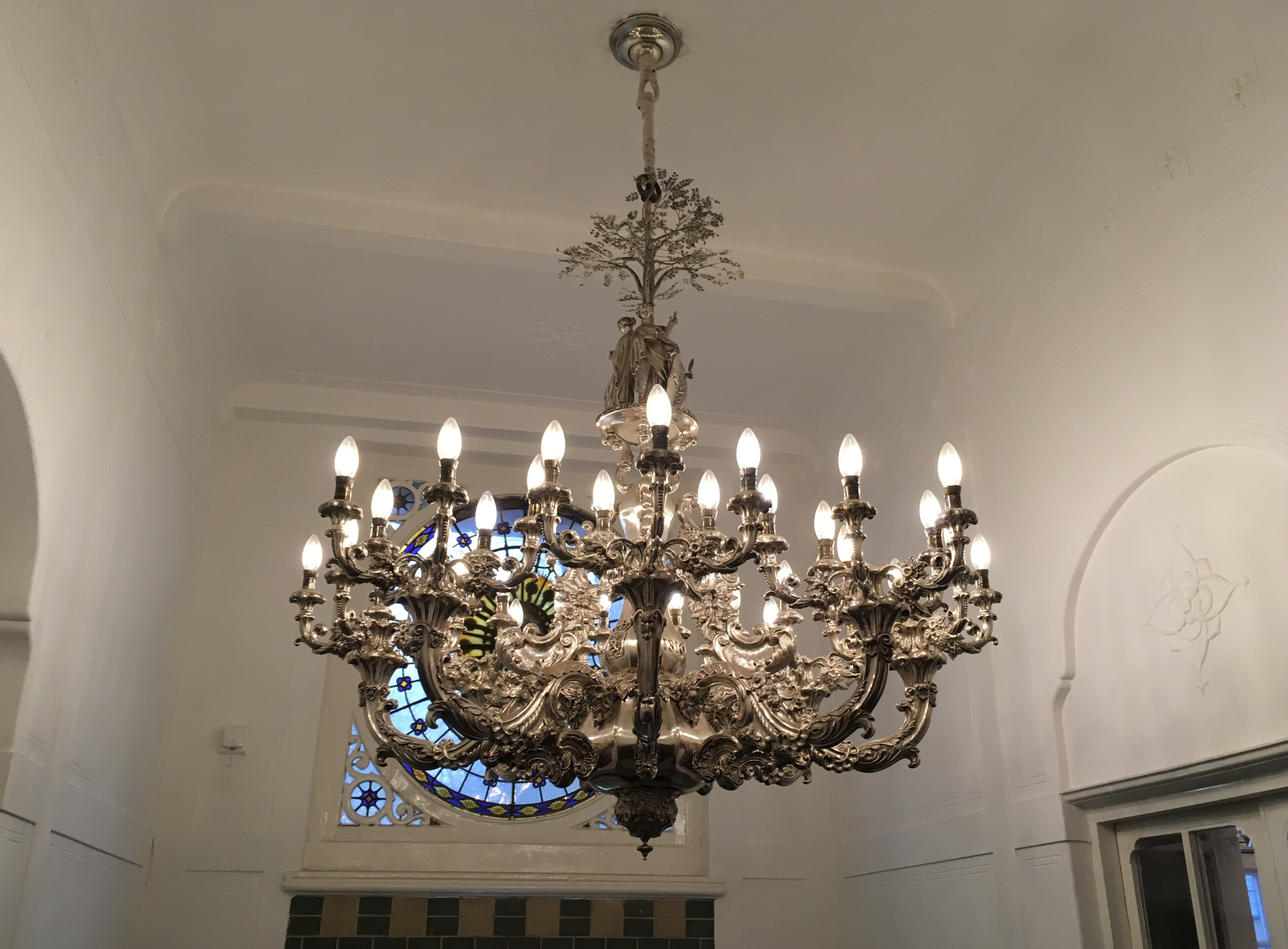 Freemason Museum The Hague, interior: Monumental silver chandelier, crafted by Amsterdam silversmith and freemason G. Grevink. It was a present for Prince Frederick of the Netherlands (1797–1881) in 1856, on the occasion of his 40-year jubilee as Grandmaster of the Order; hence the 40 lights. At the beginning of World War II it was stolen by the Germans and soon put up for auction. There the chandelier was recognized and purchased by Mr. Onderdenwijngaard (pseudonym for Polak), who returned the piece of heritage to the order building after the war.